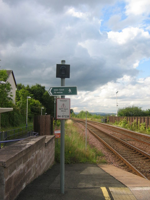 Falkirk High railway station Original description: Falkirk High railway station Railway track at Falkirk High railway station, looking west. The Union Canal is 70 metres away from the platform.